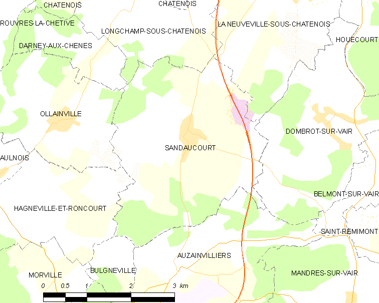 Map of French municipality Sandaucourt